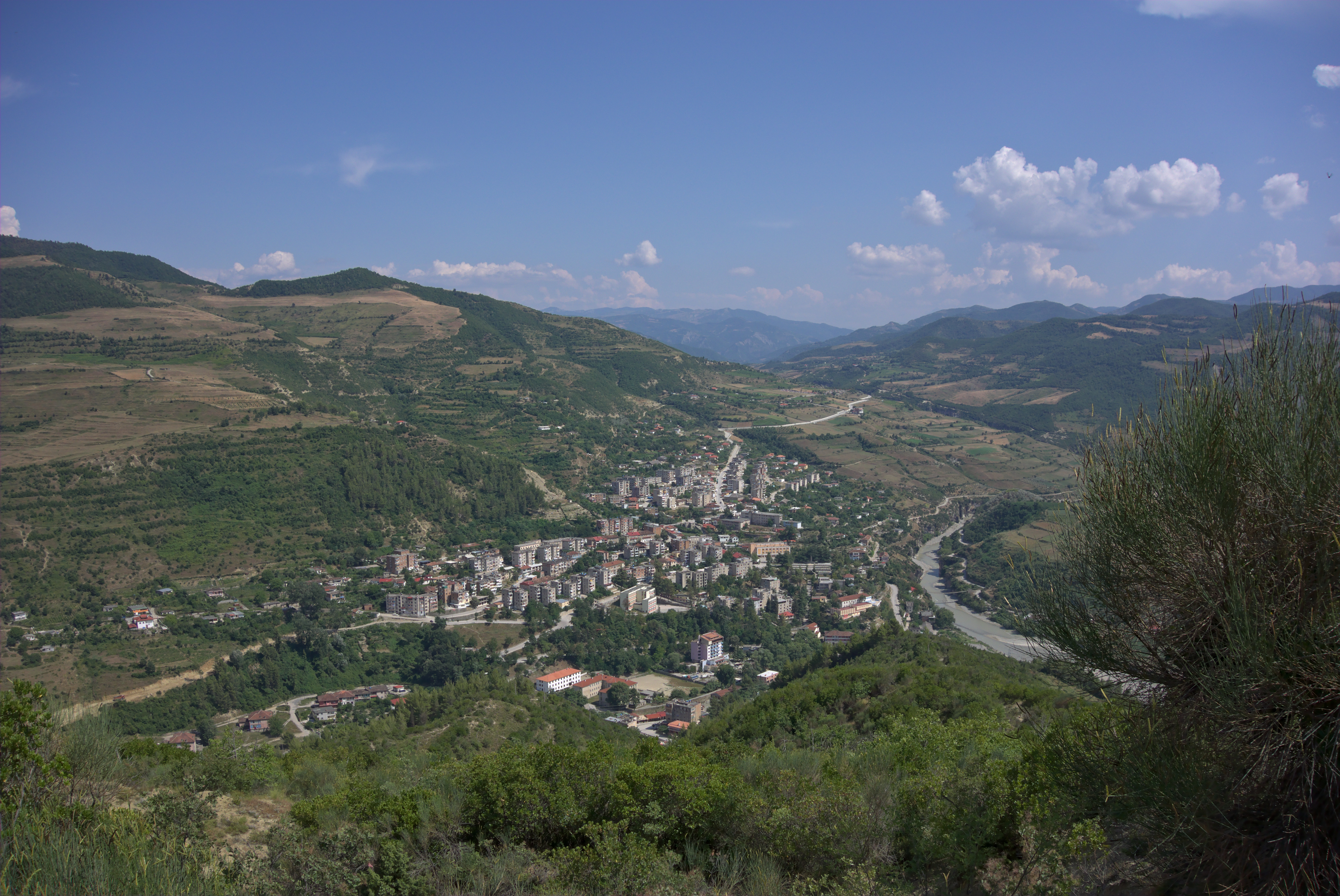 City of Çorovodë and river Osum photographed from the northwest